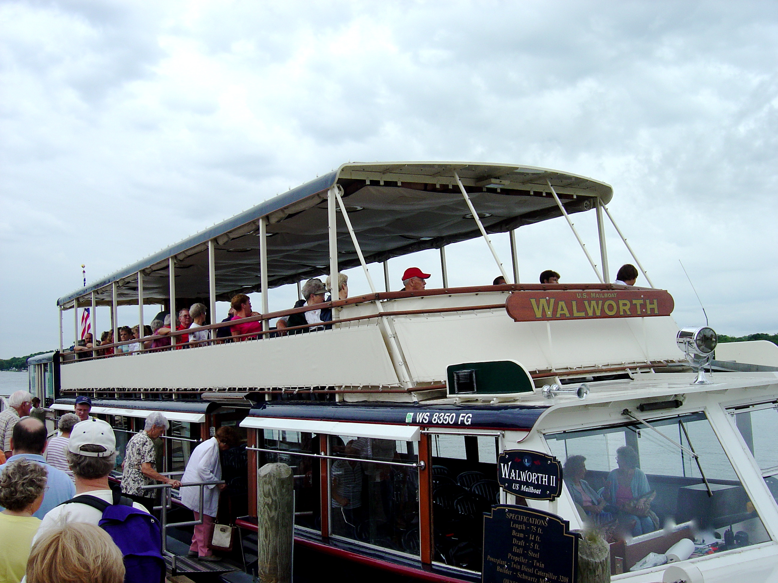 The Walworth, a US mail boat, on Geneva Lake, Wisconsin. Mail is delivered by the mail jumping method. Photo taken by Anna Harris from [1].